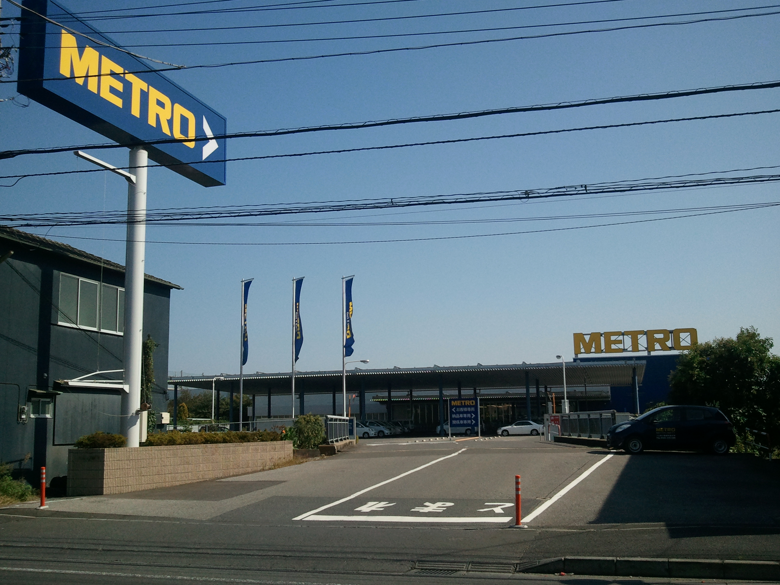 Metro Cash and Carry Nagareyama